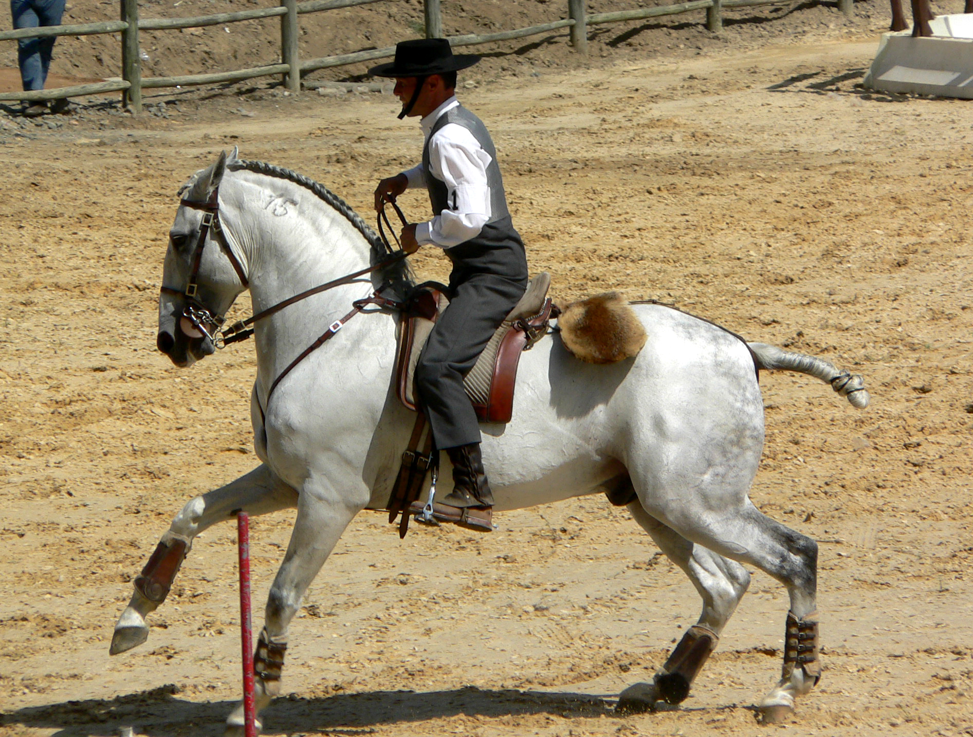 lusitano stallion